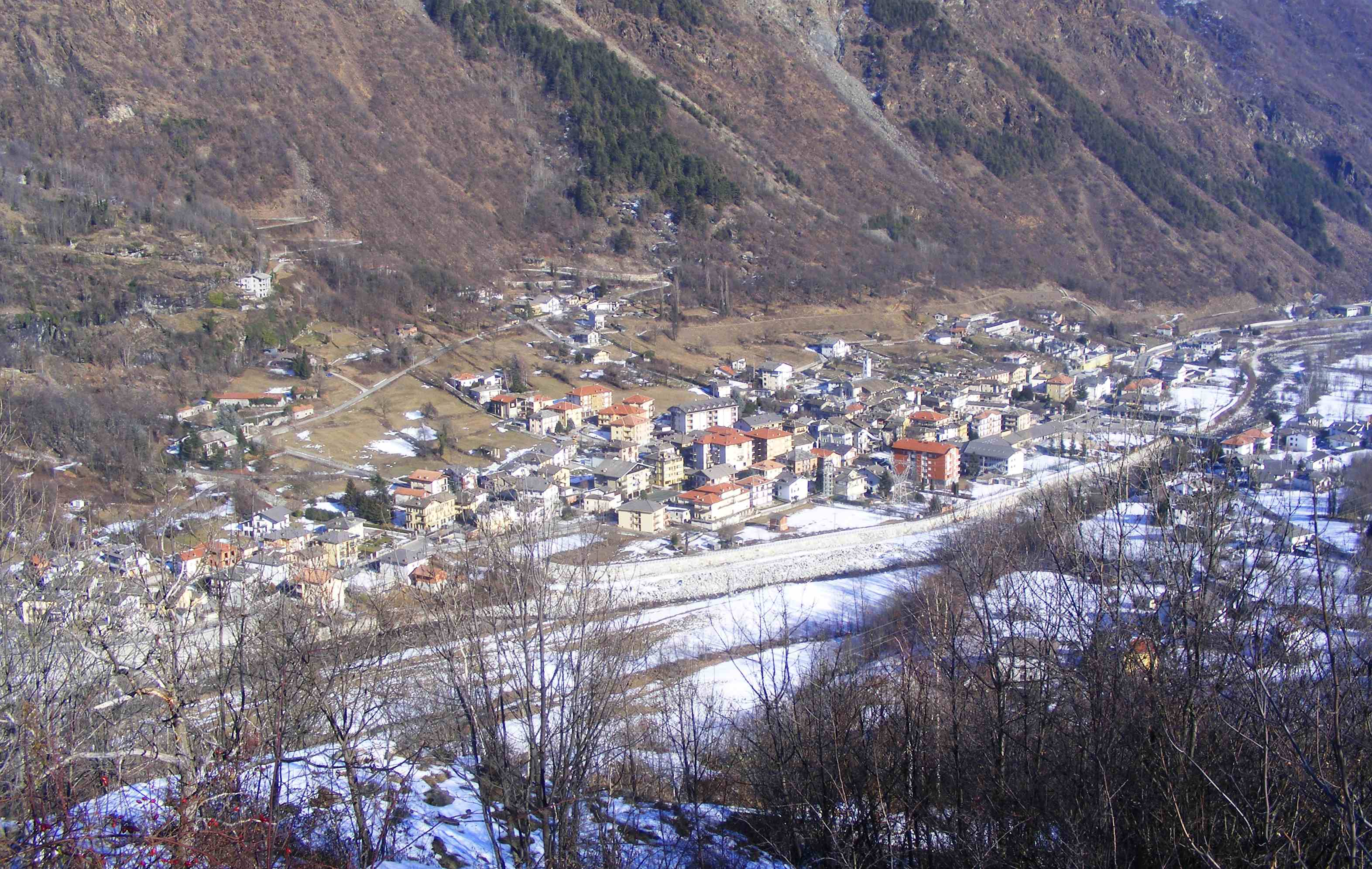 Locana (TO, Italy): panorama from the road to Gavie